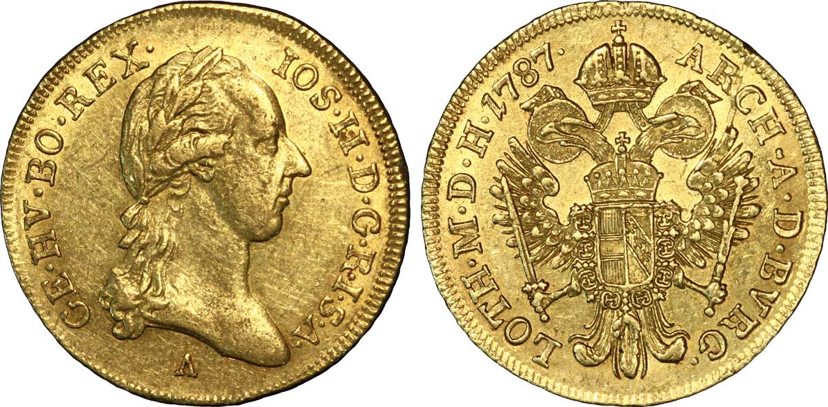 Ducat d'or à l'effigie de Joseph II, 1787